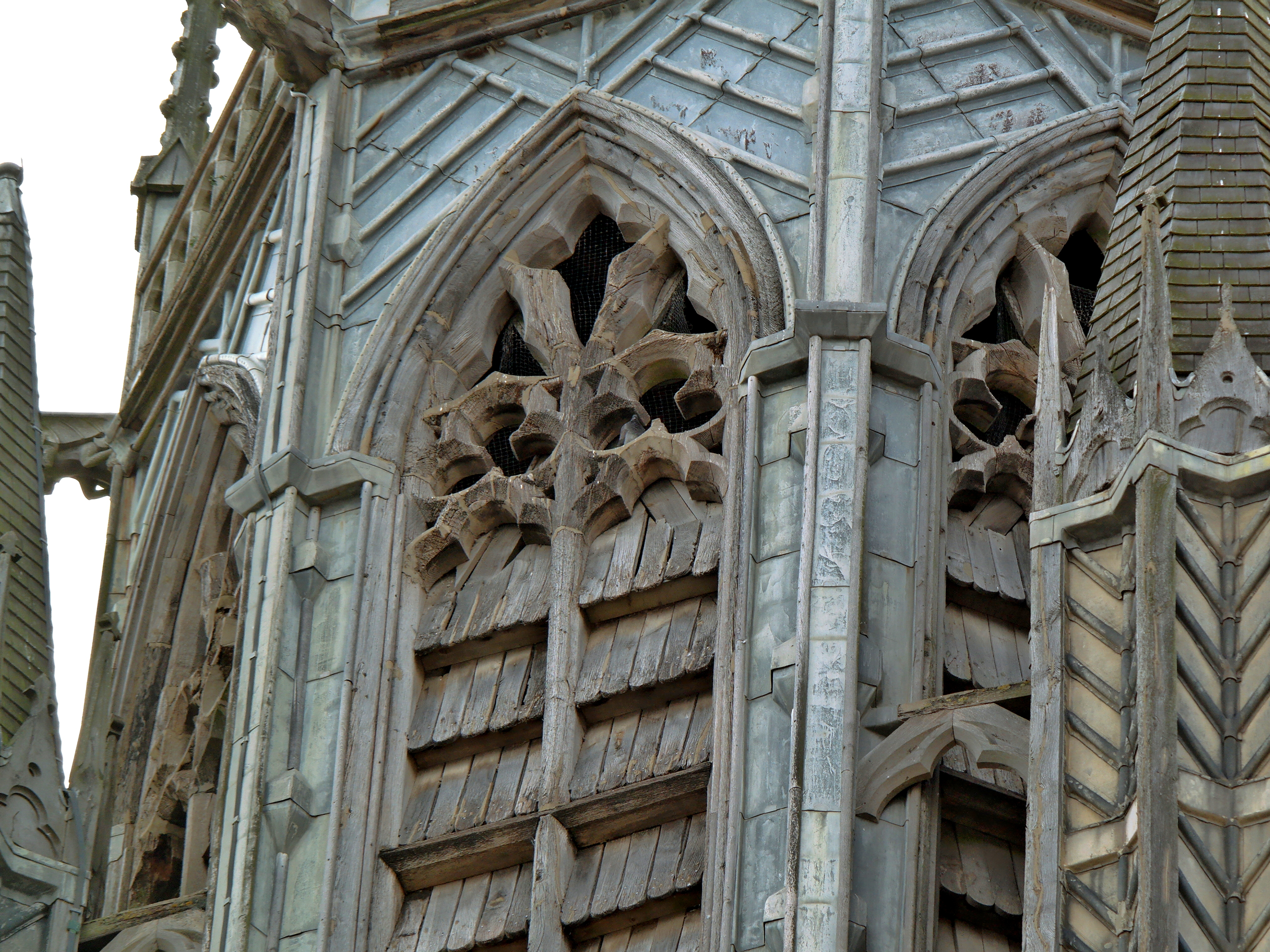 Exterior of the belfry of St Paul's parish church, West Street, Brighton, Sussex, showing wooden tracery with cement patch repairs